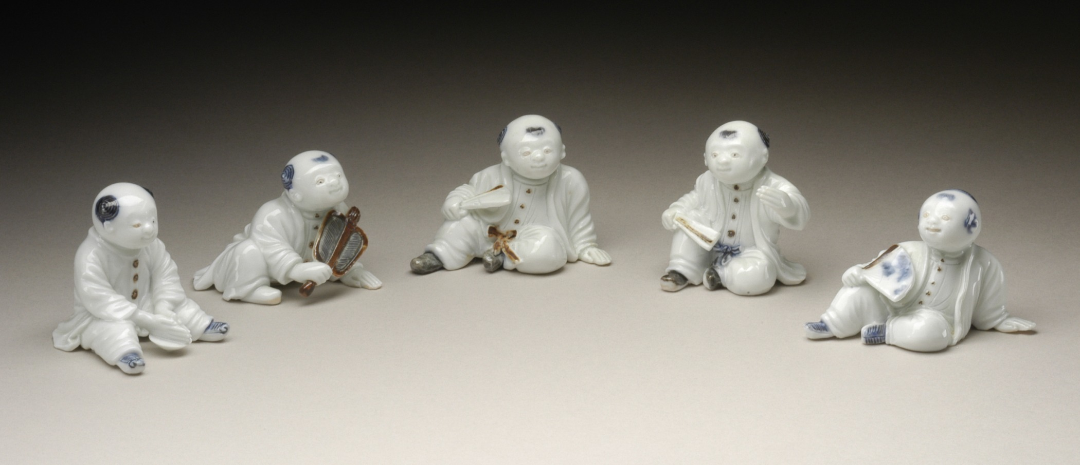 Japan, 19th century Sculpture Hirado ware, porcelain with brown glazes and underglaze blue a) Boy with flat fan: 1 1/2 x 1 5/8 x 2 in. (3.81 x 4.13 x 5.08 cm); b) Boy with closed fan: 1 3/4 x 1 5/8 x 1 3/4 in. (4.45 x 4.13 x 4.45 cm); c) Boy with spinning top: 1 3/4 x 1 1/2 x 1 15/16 in. (4.45 x 3.81 x 4.92 cm); d) Reclining boy with closed fan: 1 1/2 x 2 1/4 x 1 1/2 in. (3.81 x 5.72 x 3.81 cm); e) Boy with open fan: 1 1/2 x 2 1/2 x 1 3/8 in. (3.81 x 6.35 x 3.49 cm) Gift of Allan and Maxine Kurtzman (M.2002.147.14a-e) Japanese Art